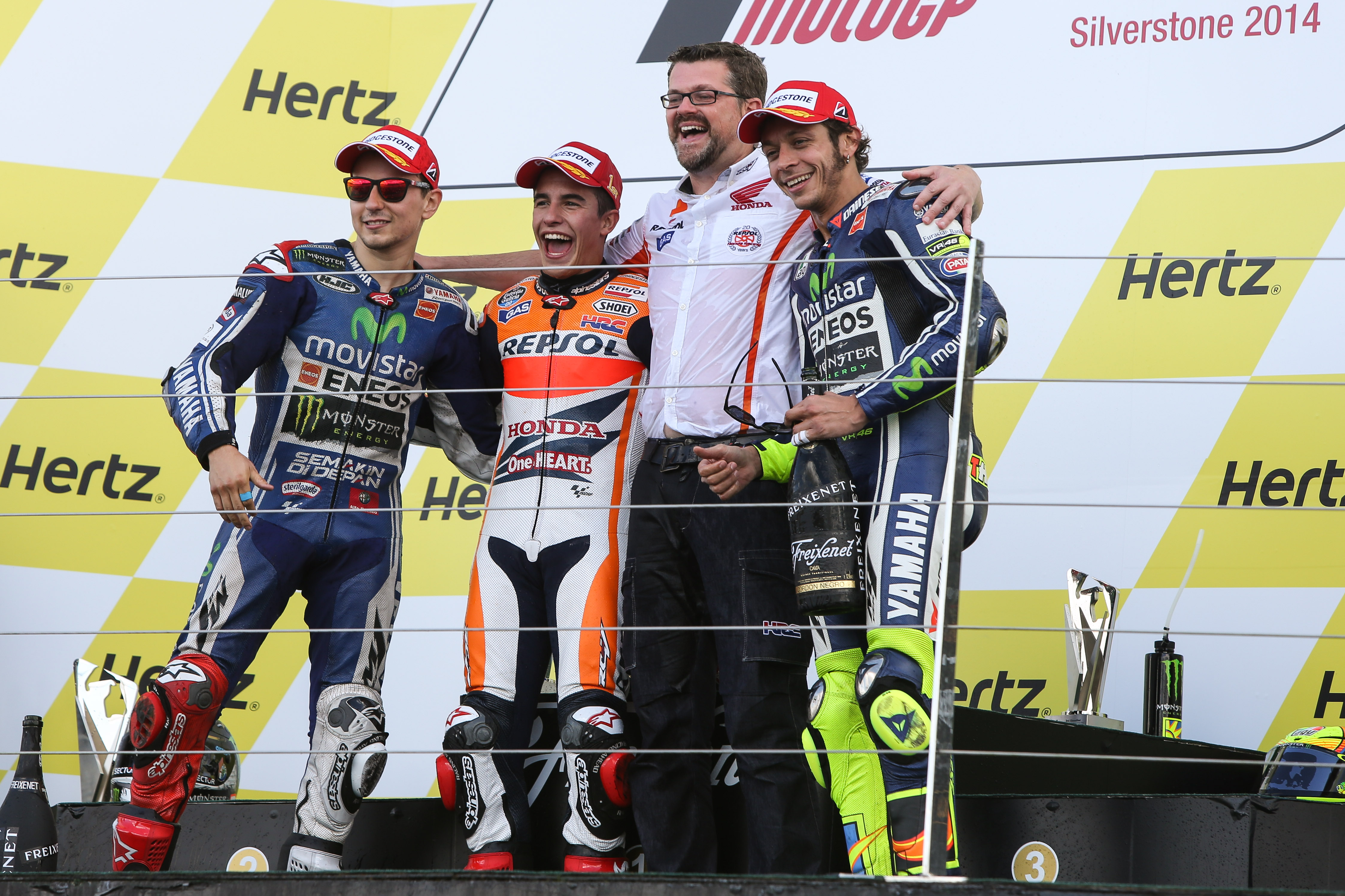 Jorge Lorenzo, Marc Márquez and Valentino Rossi, celebrating on the podium after finishing in second, first and third place at the 2014 British Grand Prix.